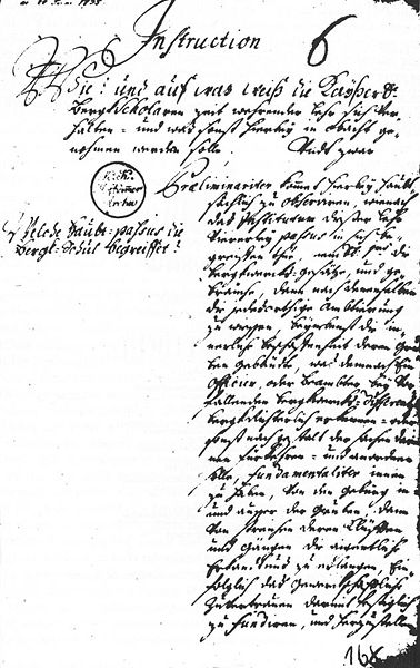 First page of the "Instruction" for the Bergschule Selmecbánya, 1735